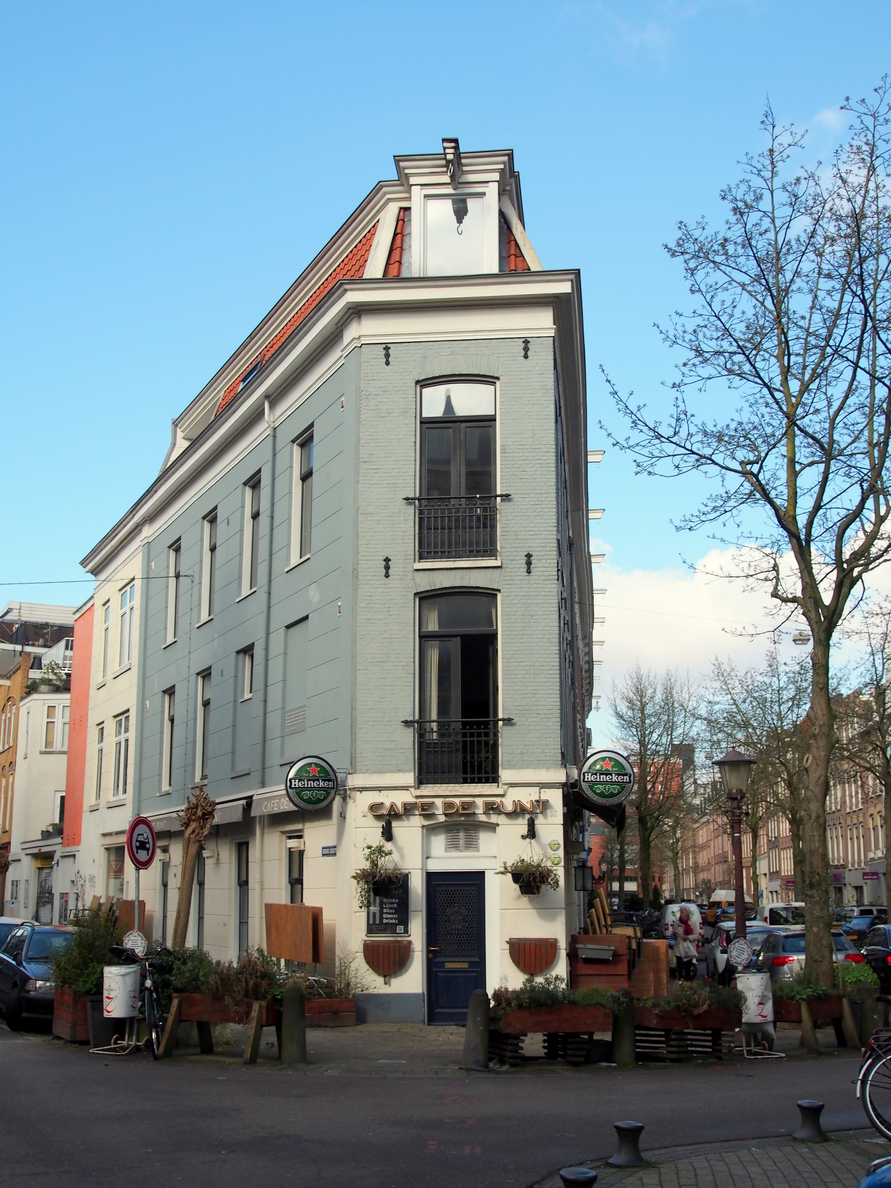 Gerard Doustraat hoek Tweede Jacob van Campernstraat